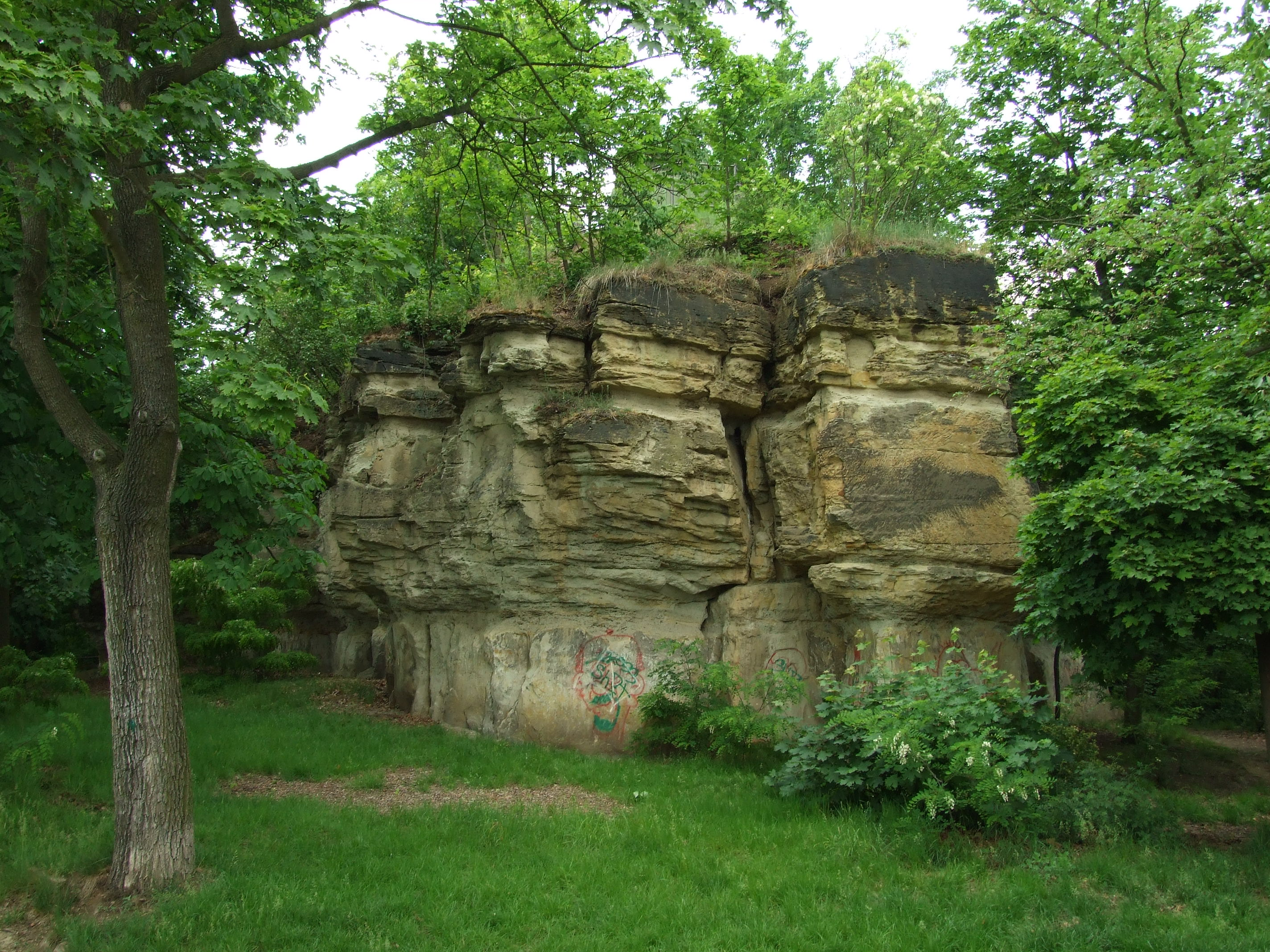 Town of Kralupy nad Vltavou and its surrounding nature in Central Bohemian region, CZ. Here Hostibejk rocks and hillhelp